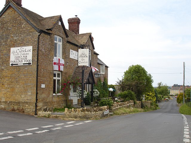 The Camelot, South Cadbury. At the junction of Folly Lane with Church Road.